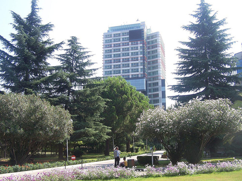 ABA Business Center, Tirana